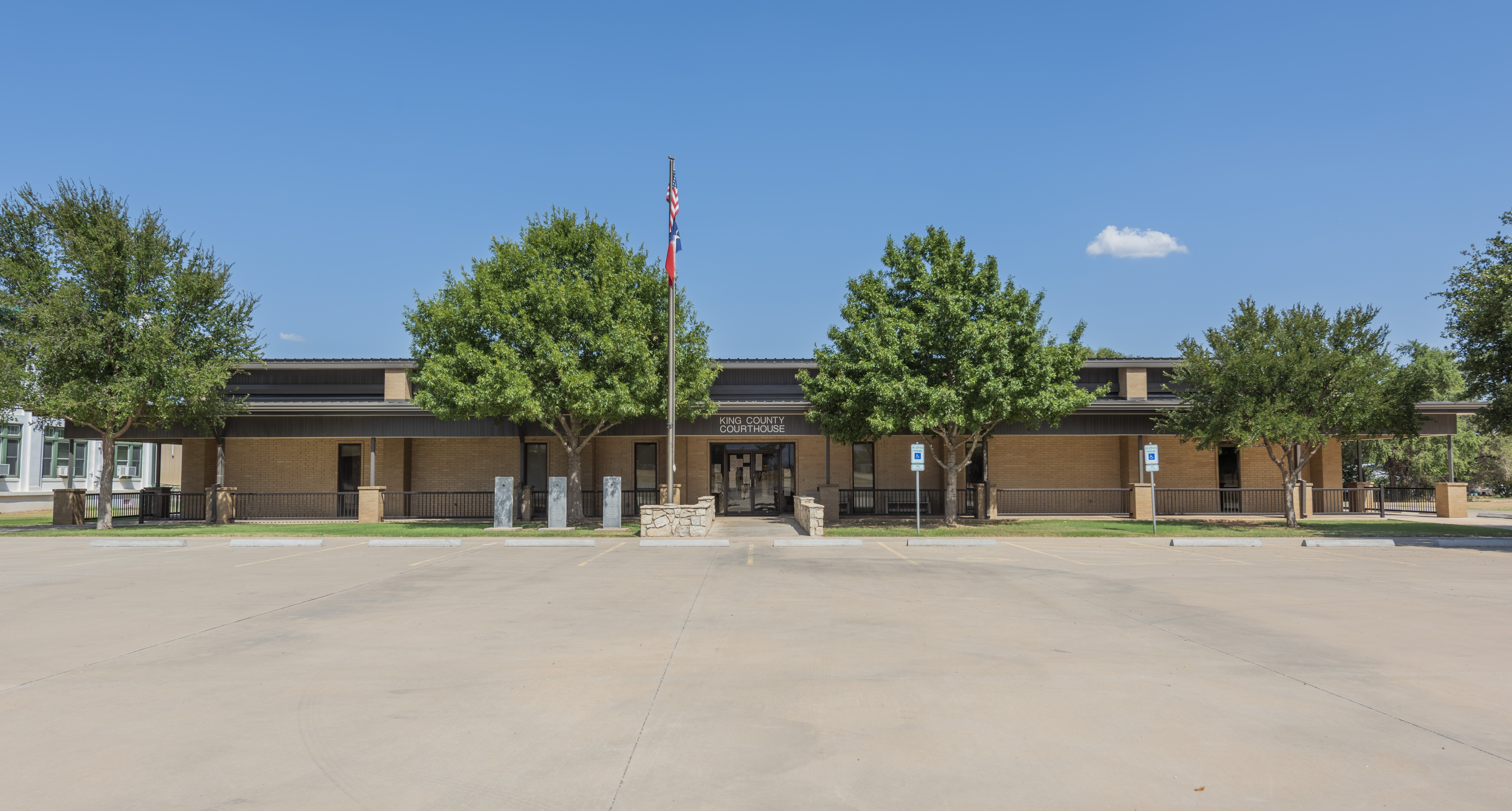 Photograph of the King County Courthouse in Guthrie, Texas. Image taken in August 2020.